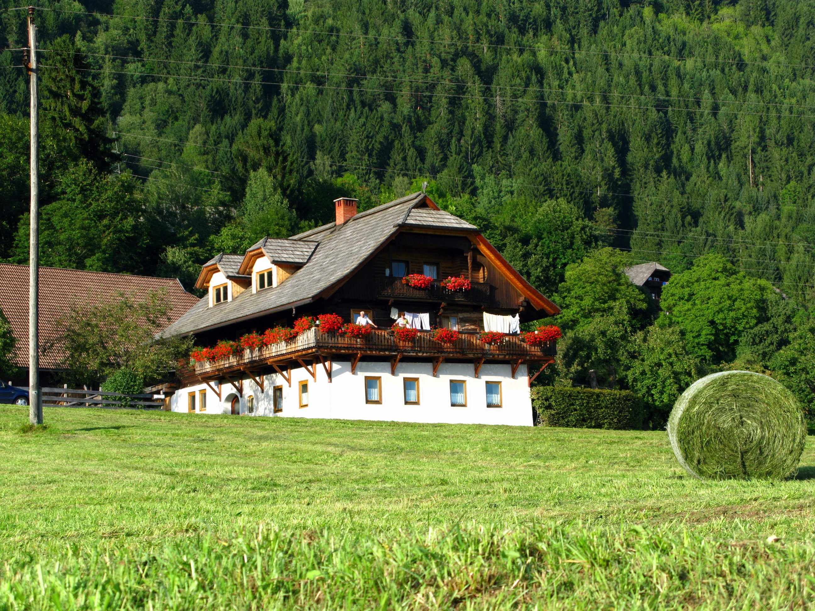 Farm in Sappl near Lake Millstatt (Millstätter See), district Spittal an der Drau in Carinthia / Austria / EU.